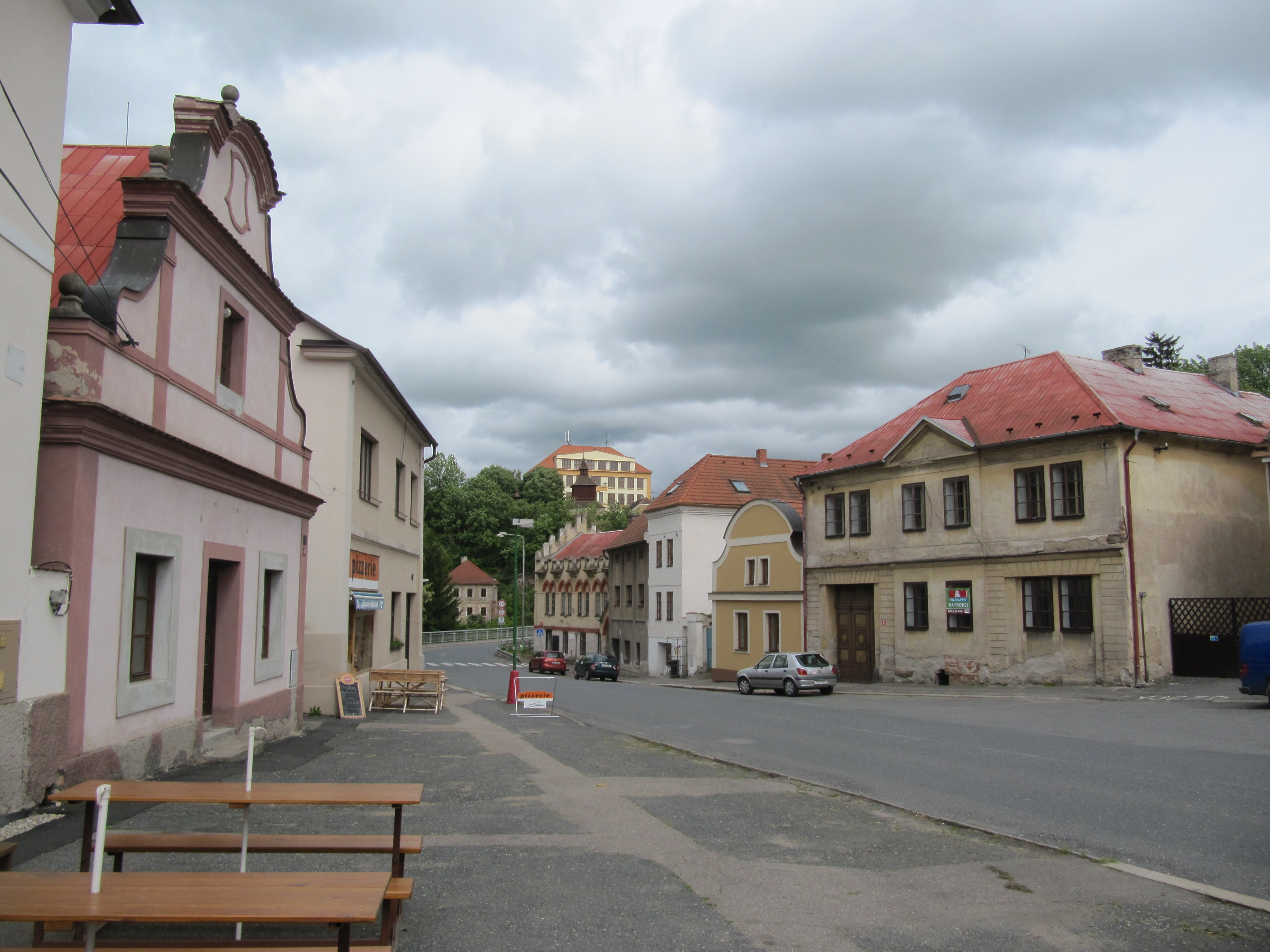 Žleby, Kutná Hora District, Czech Republic. Square.